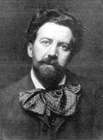 Public domain image of Henry Wood.